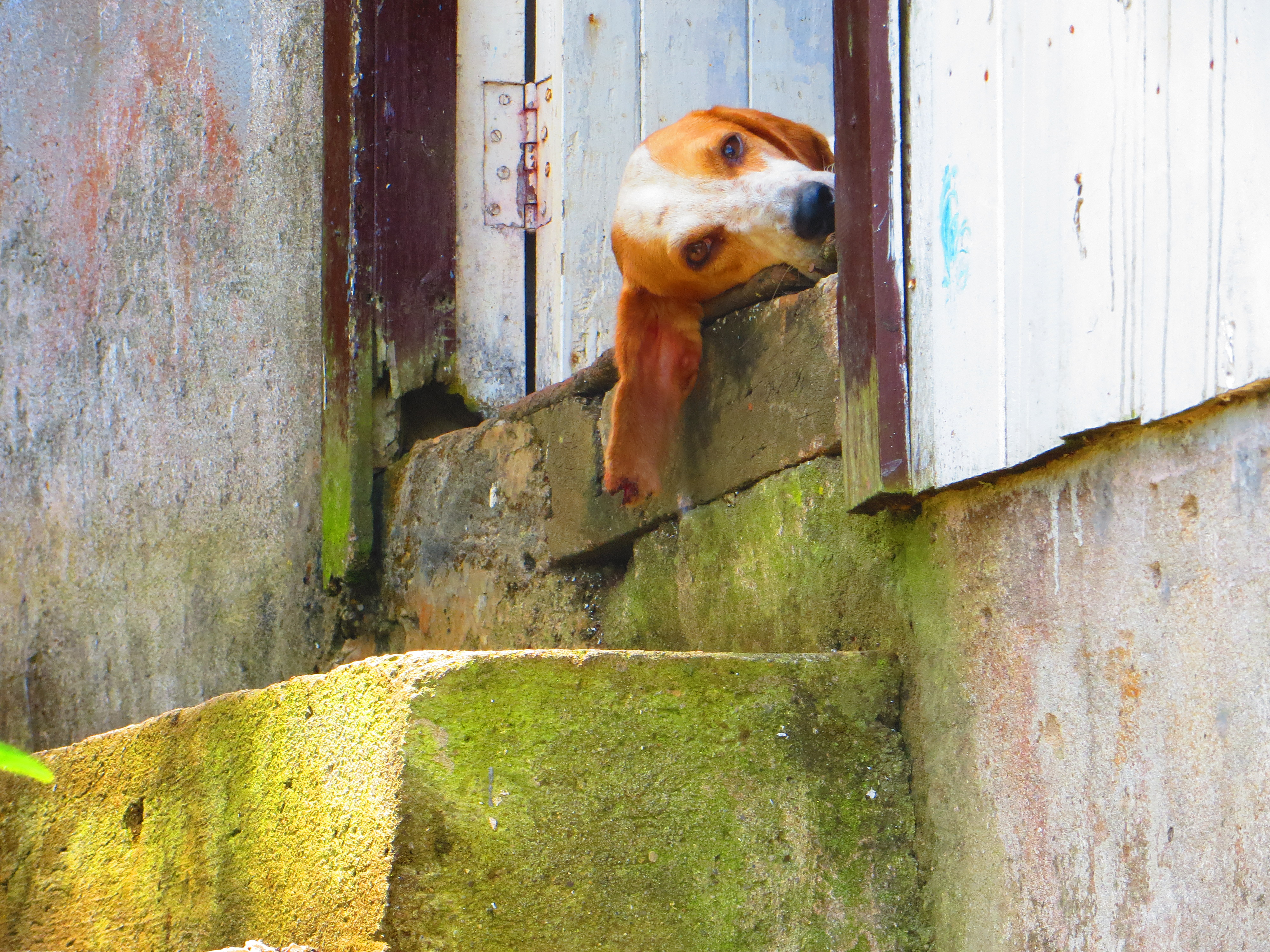 A dog with cutaneous leishmaniasis affecting the ear. El Castillo municipality, Río San Juan Department, Nicaragua.